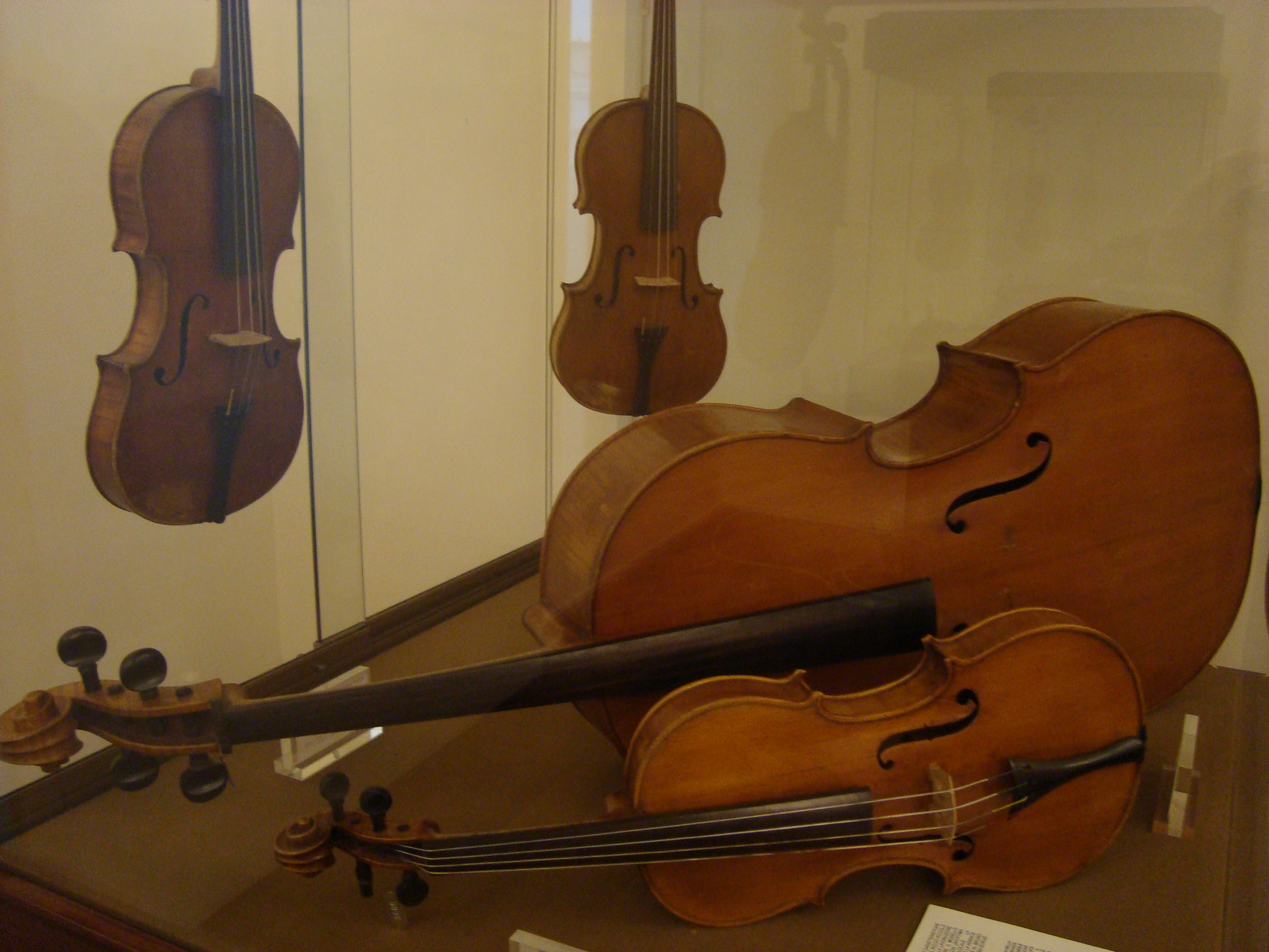 Cords group by Giuseppe and Antonio Sgarbi, 19th century, collections of the Museo Nazionale degli Strumenti Musicali di Roma